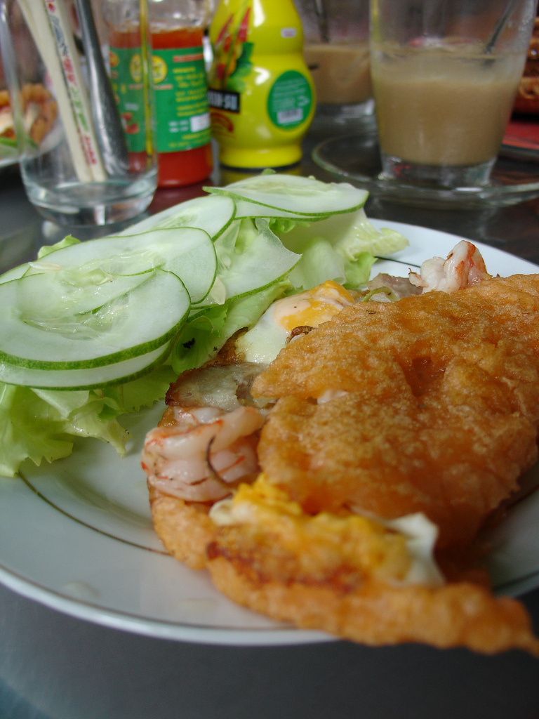 Bánh xèo pancake in Huế, Vietnam